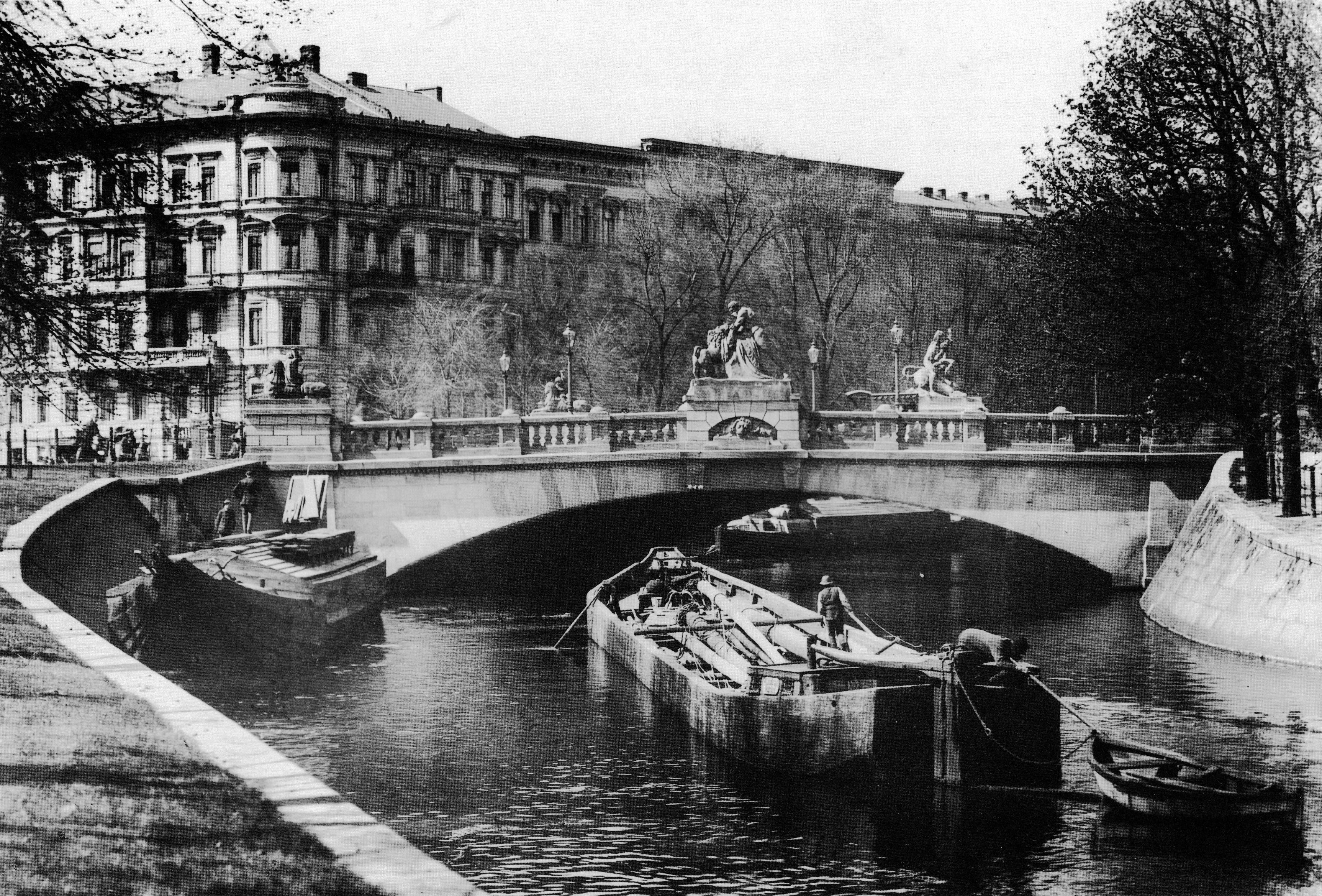 Herkulesbrücke (“Hercules bridge”) across Landwehrkanal in Schöneberger Vorstadt, Berlin (now in Tiergarten district).